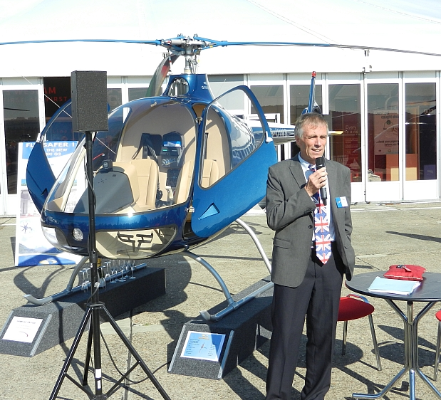 Bruno Guimbal founder and CEO of Hélicoptères Guimbal in front of the Cabri G2.